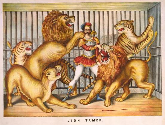 Lion tamer Lion tamer in cage with two lions, a lioness, and two tigers.